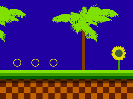 Stylistic view of the Green Hill Zone from Sega's Sonic the Hedgehog (1991). In this picture are three rings, a grassy field and a palmtree. The main character Sonic has to collect rings while running through the level.